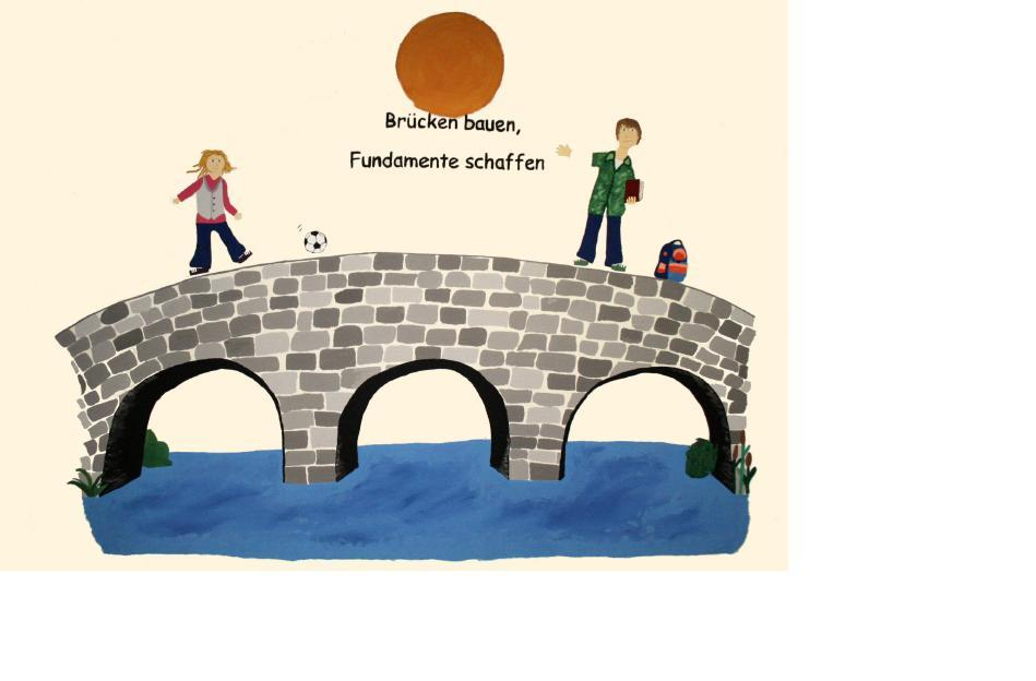 Ludgerusschool Germany